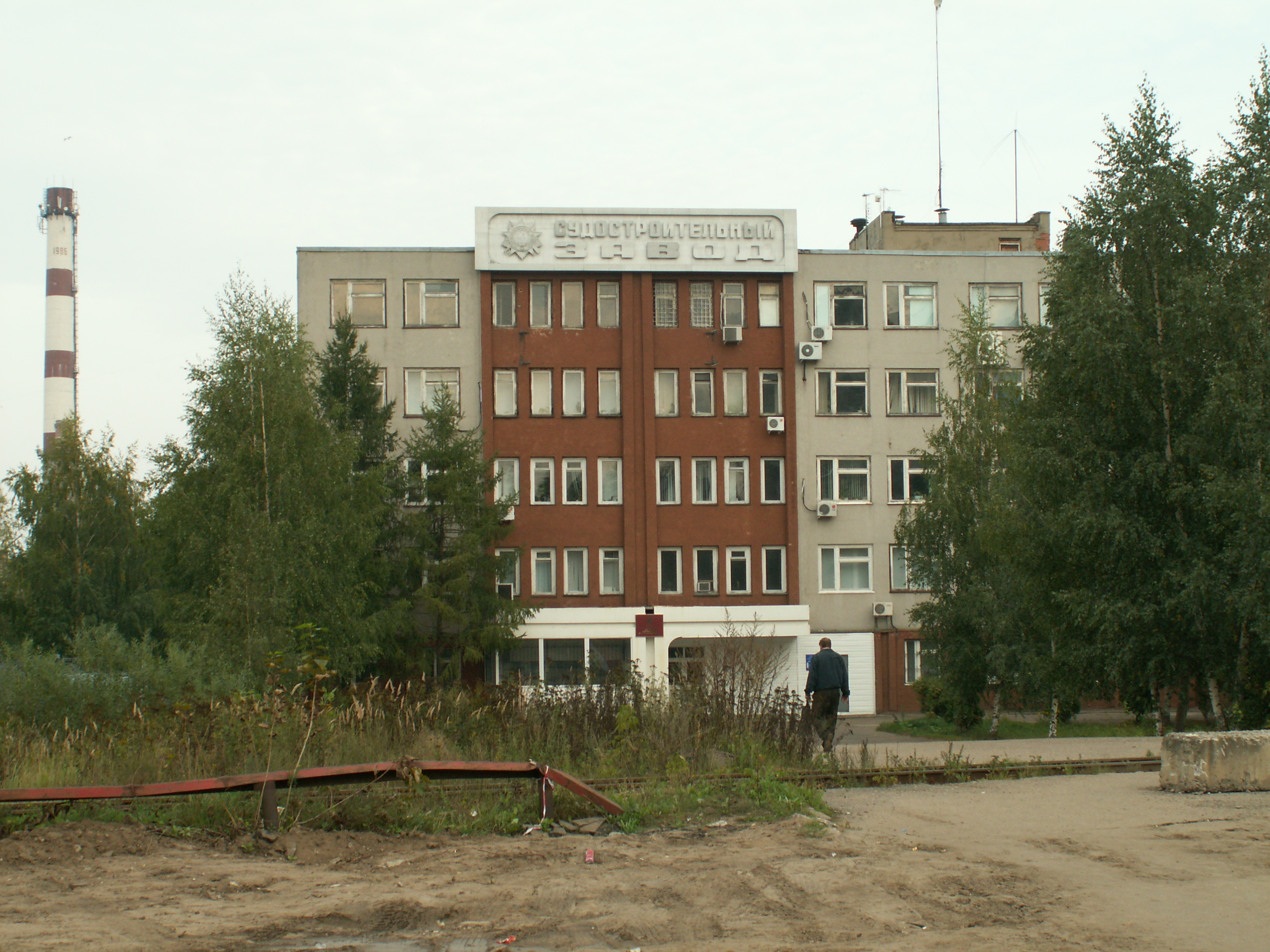 Yaroslavl Shupbuilding Plant